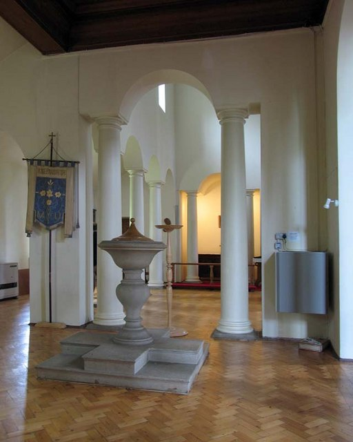 St Martin, Knebworth, Herts - Font